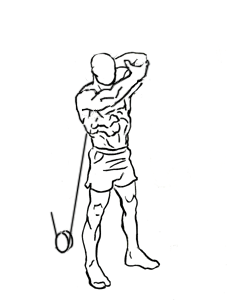 an exercise of triceps